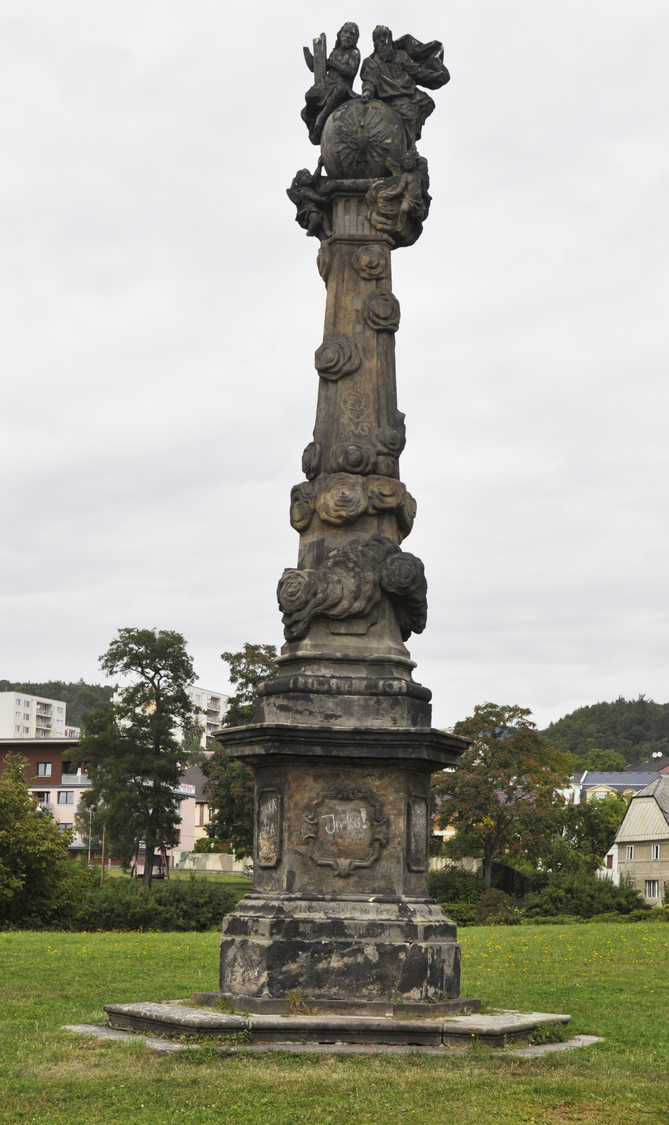 Holy Trinity Column in Litvínov, in Voigt Park, close to Archangel Michael Church